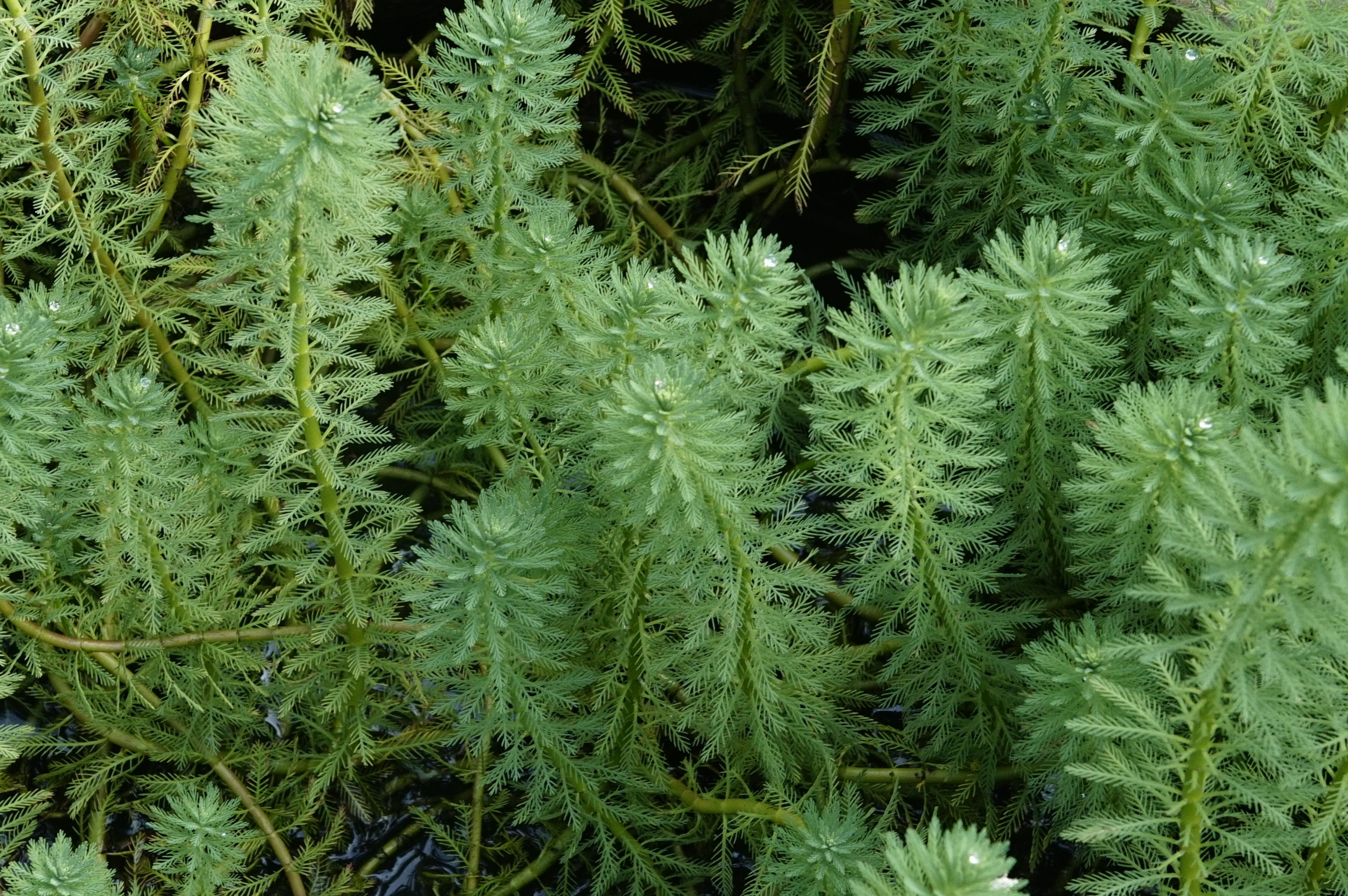 Myriophyllum alterniflorum